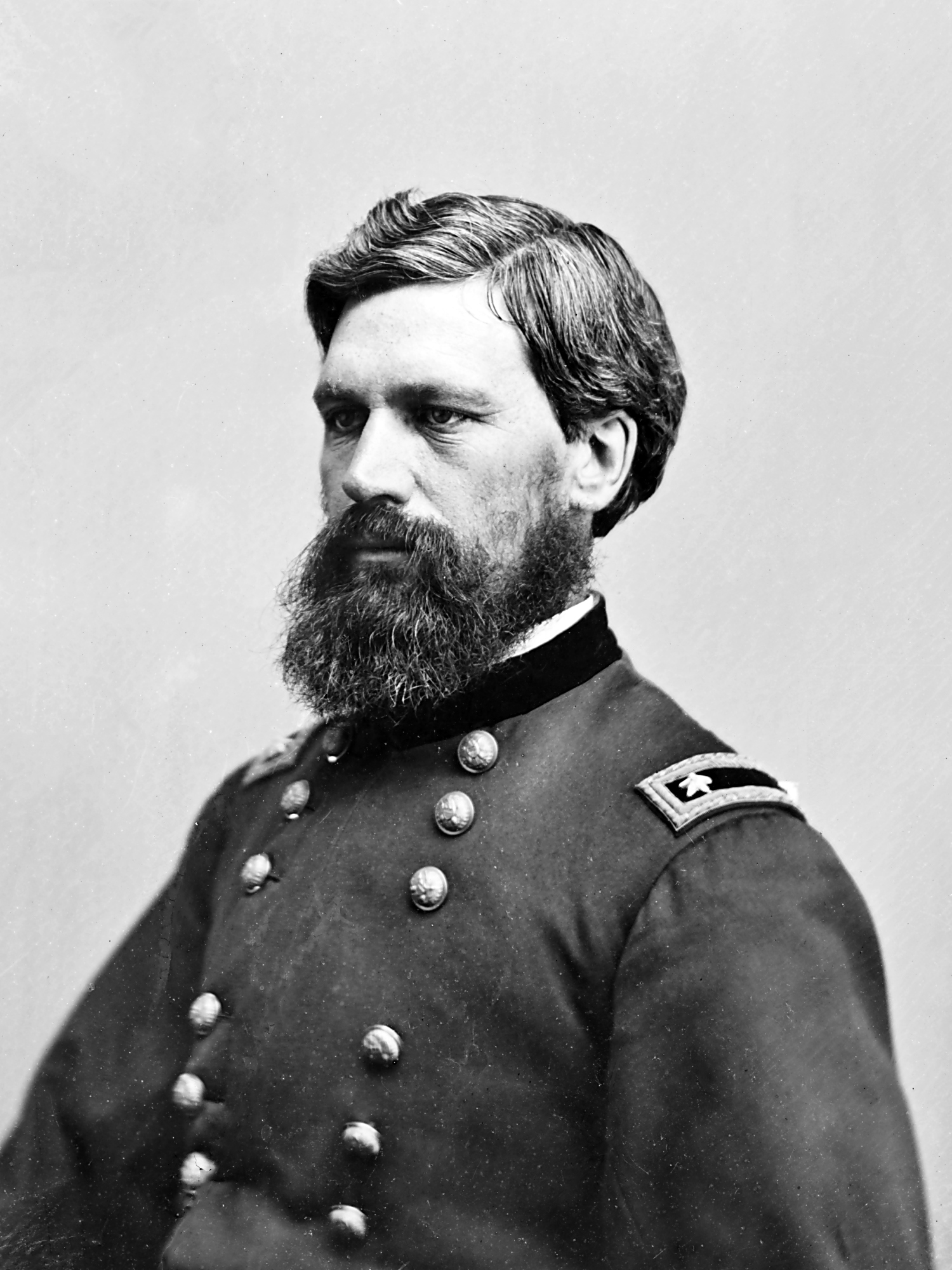 Gen. O. O. Howard (between 1855 and 1865) Source Library of Congress, Prints and Photographs Division, Brady-Handy Collection, reproduction number LC-DIG-cwpbh-00893.